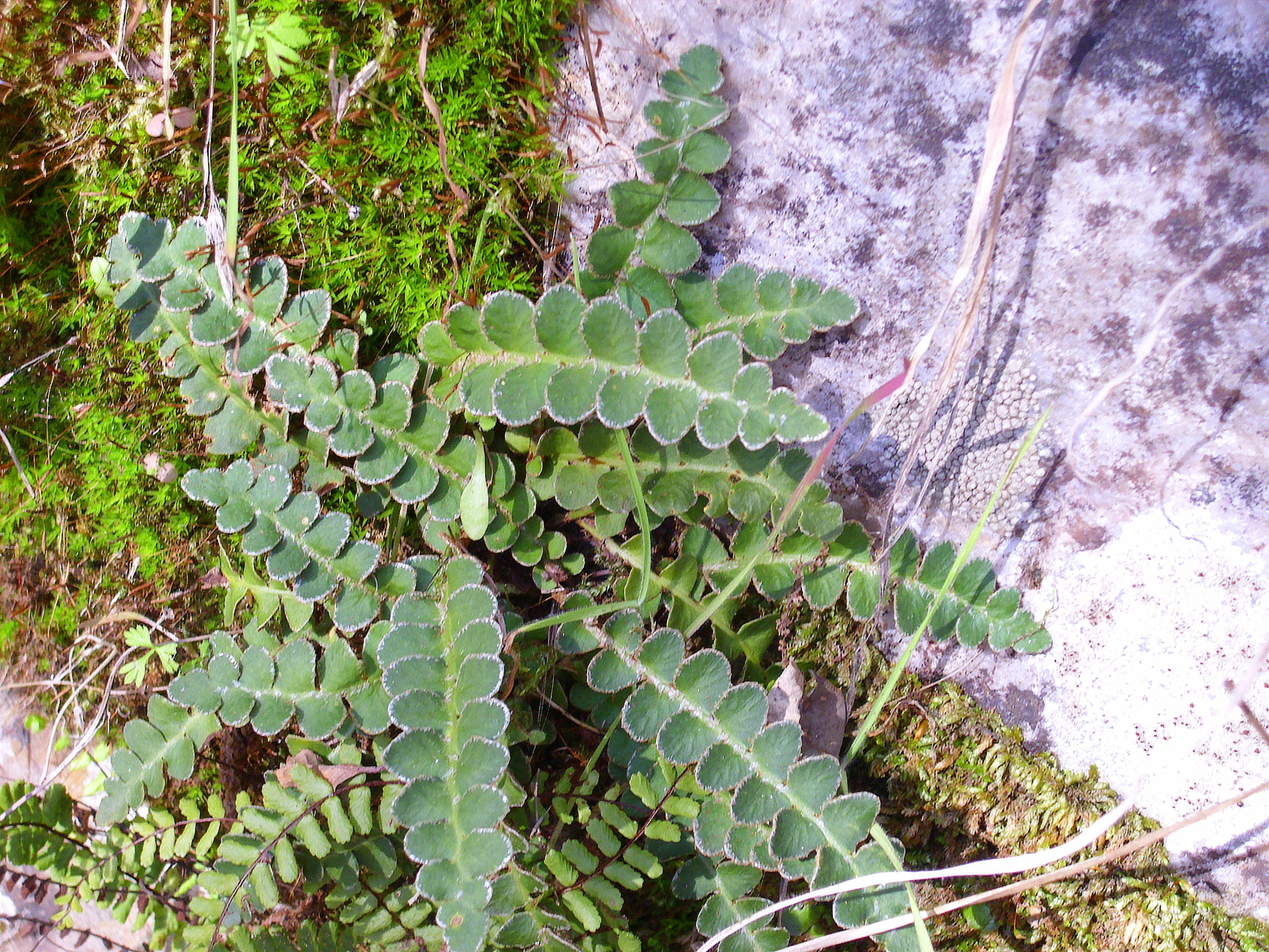 Asplenium ceterach habit, Sierra Madrona, Spain